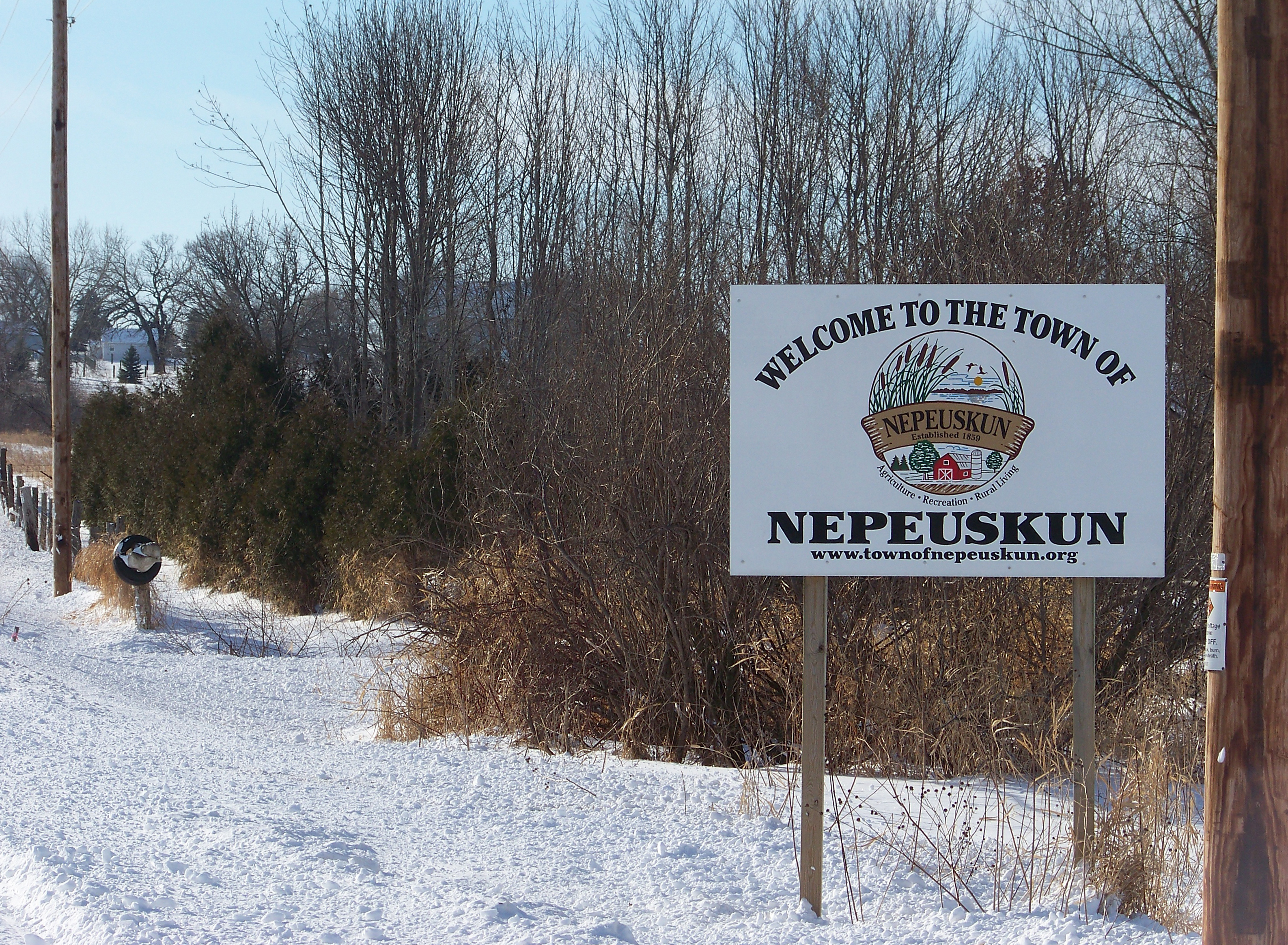 Entering Nepeuskun heading south on Cty E from Eureka